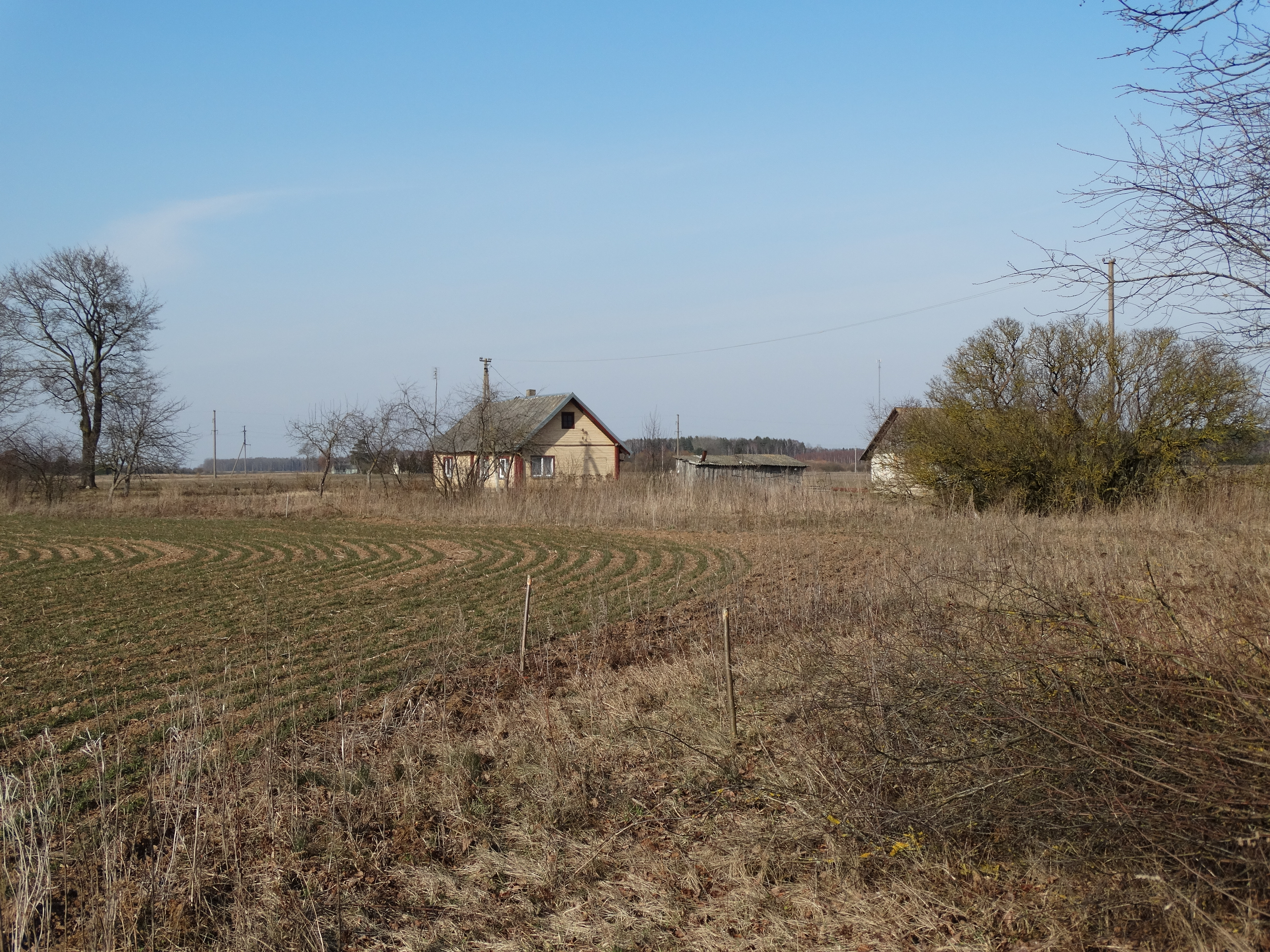 Kritižis, Panevėžys District, Lithuania